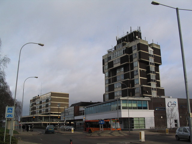 Council offices, Corby Town Centre A Prince Charles 'carbuncle', or a future 'listed building'?